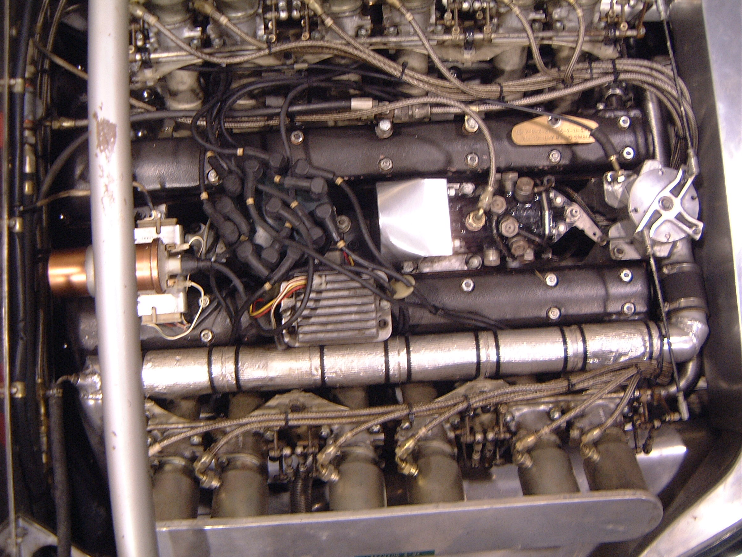 Author: Mike Morrin Photo taken at JAguar Castle Bromwhich training centre